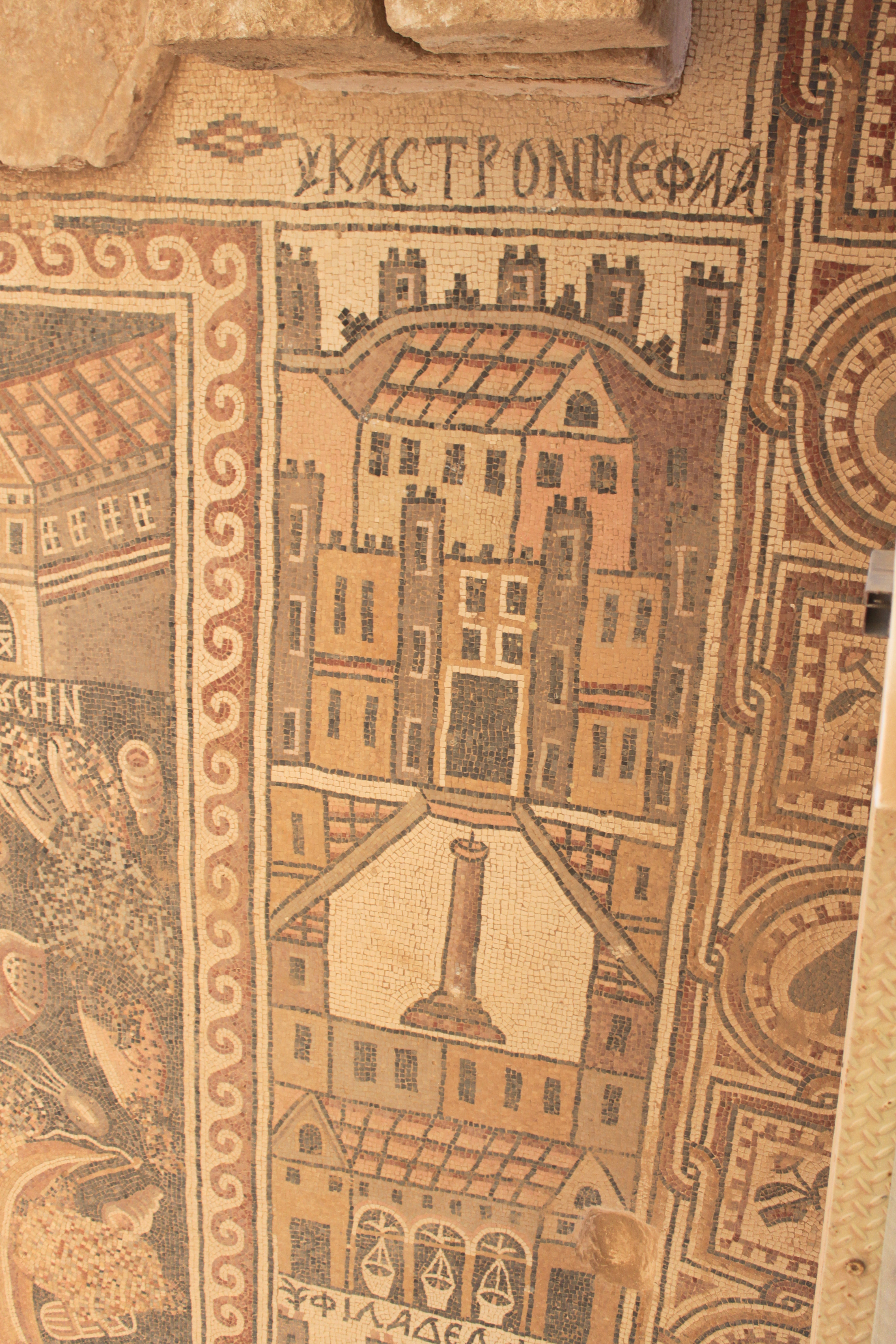 Mosaics at Umm ar-Rasas